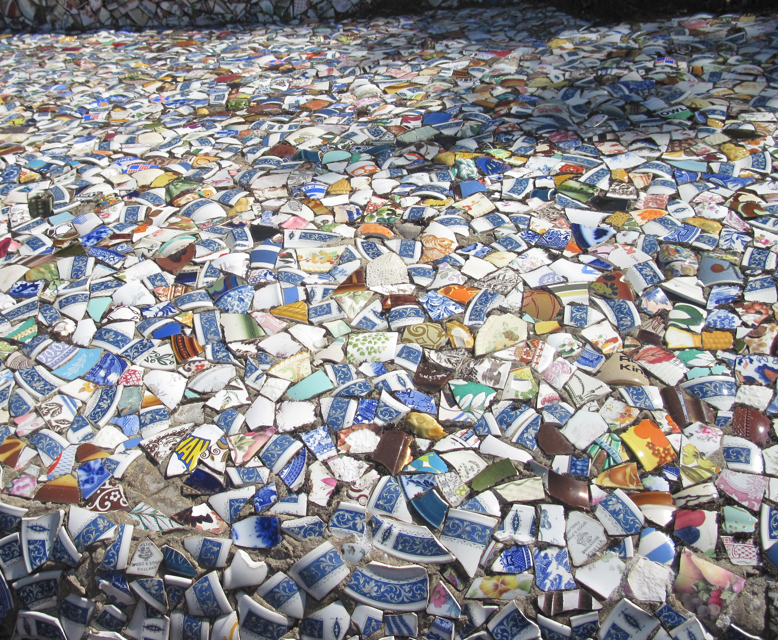 Guernsey, July 2011